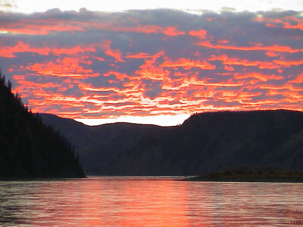 Yukon-Charley Rivers National Preserve